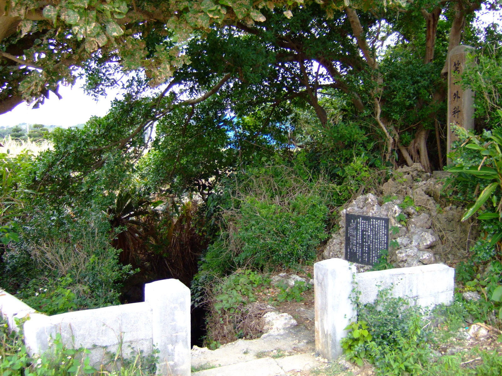 The cave of Okinawa military hospital (dept. of surgery, 1st div. in Ihara, Itoman, Okinawa Prefecture, Japan)